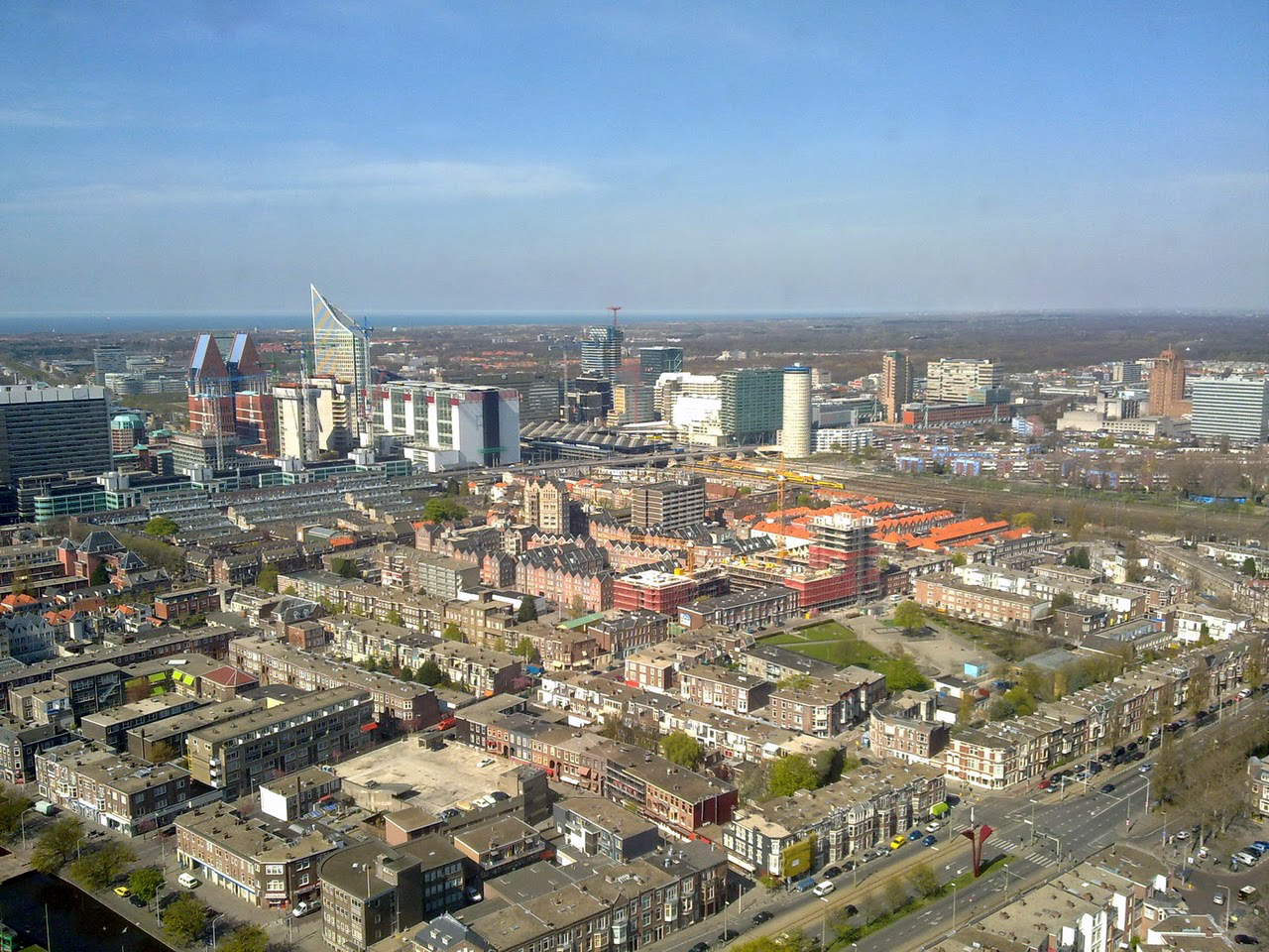 Area view from 'Het Strijkijzer'